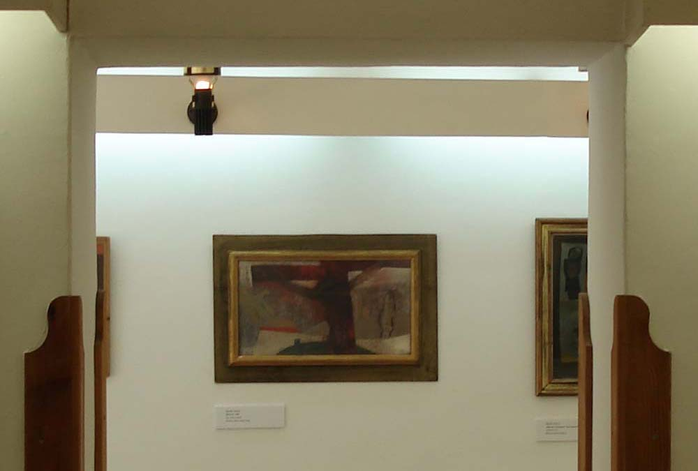 Gyula Feledy (1928) Hungarian painter, Exhibition, Feledy House